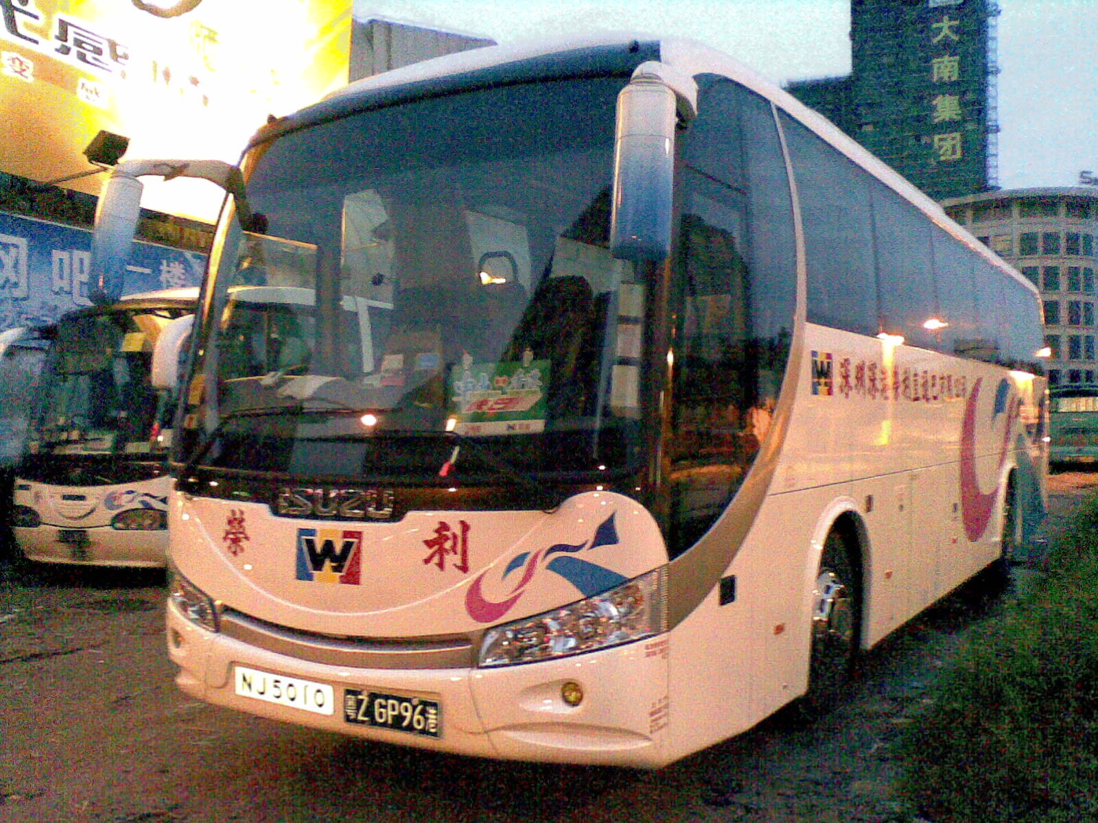 This bus is ISUZU LV423R, body is China Kong Star. 中文（香港）: 使用中港之星車身的五十鈴LV423R。